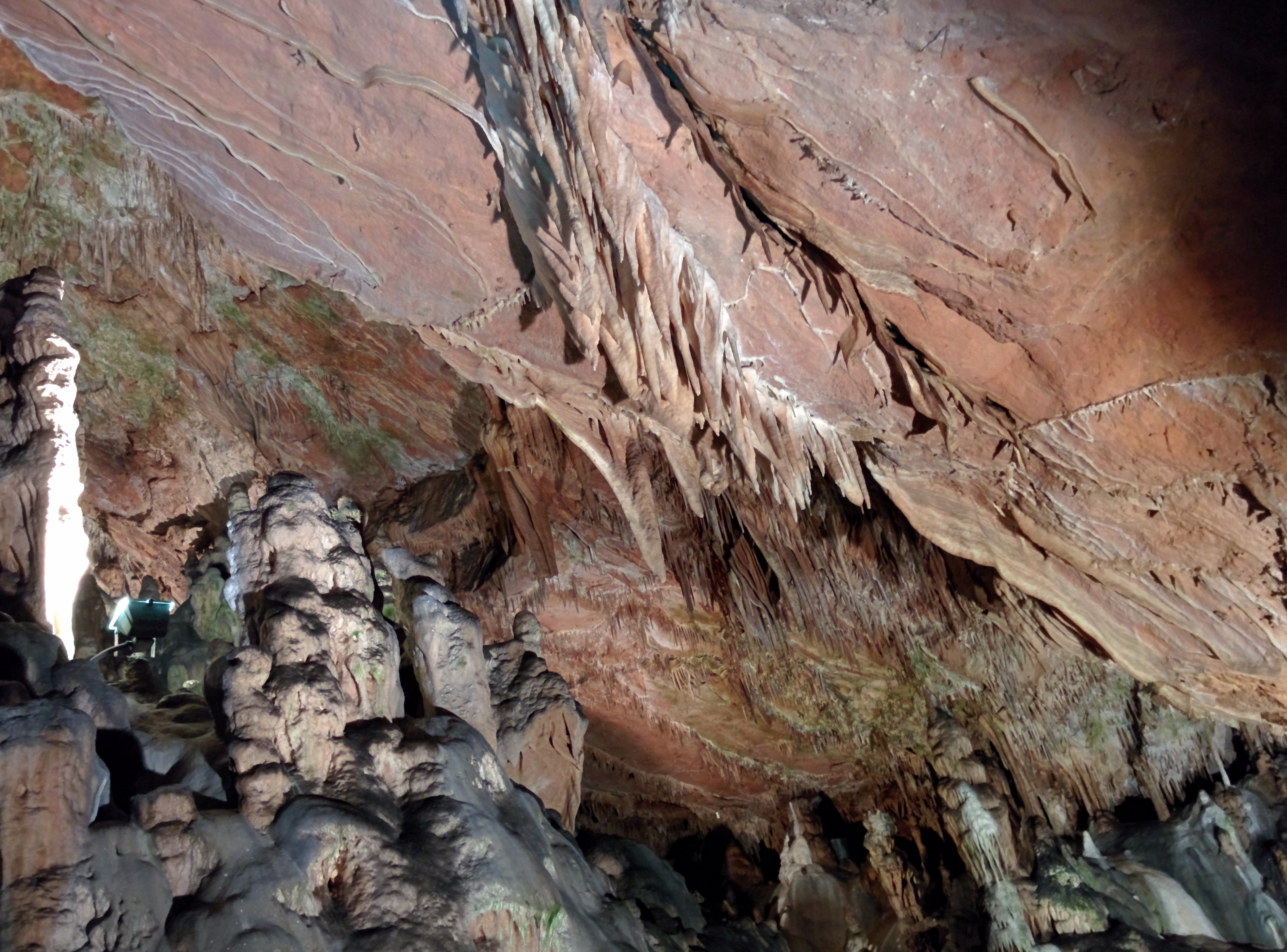 Lovech Province, Yablanitsa Municipality, village of Brestnitsa, natural phenomenon Saeva Dupka Cave